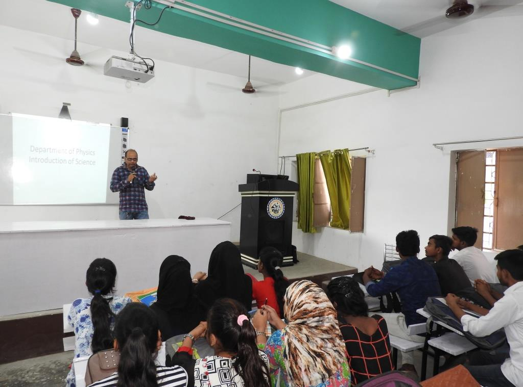 Student attending physics department smartclass